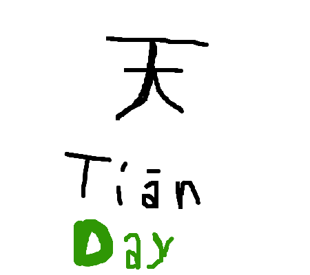 Chinese, pinyin, and English meaning of a single Chinese word